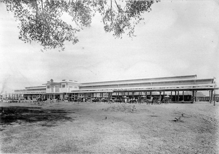 Railwaystation Semarang-west (Pontjol) of the Semarang-Cheribon Steamtram Company (SCS)